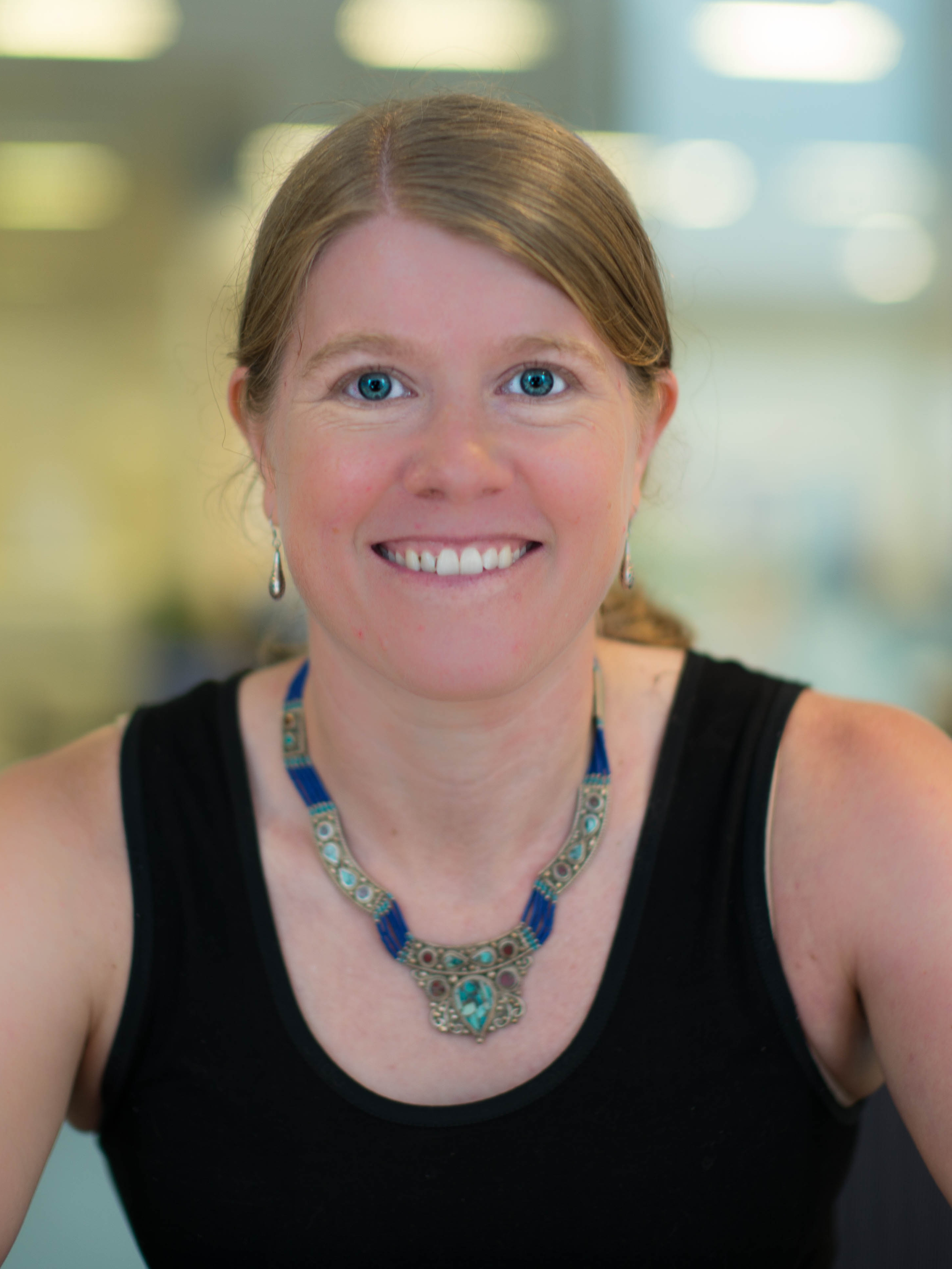 Sarah Parcak, an American archaeologist, space archaeologist, and Egyptologist in 2014